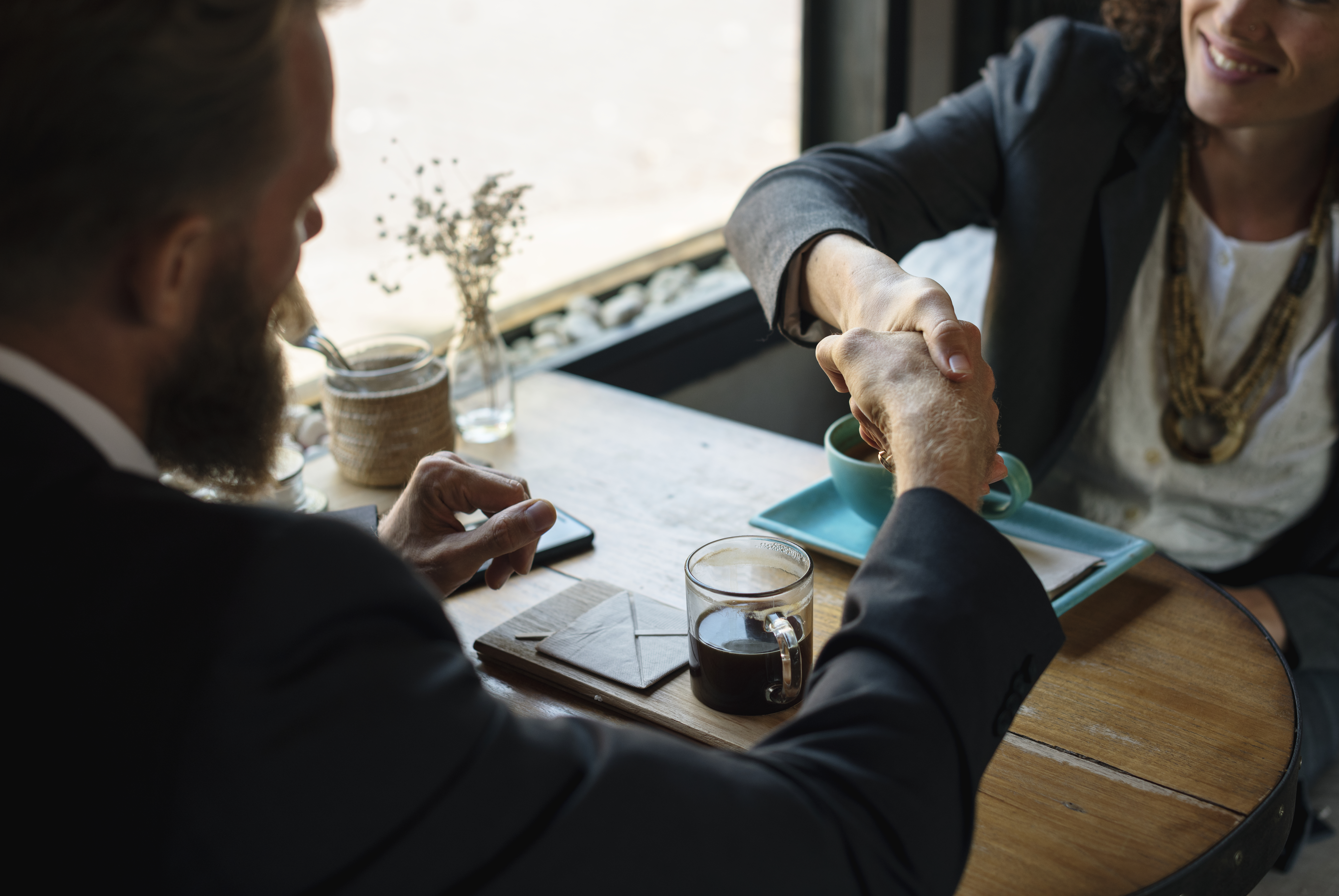 Business agreement handshake at coffee shop